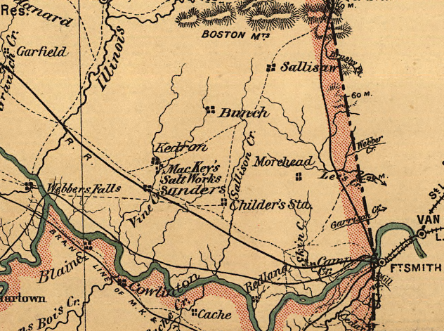 Detail of an 1887 map from the Libray of Congress and is in the public domain.